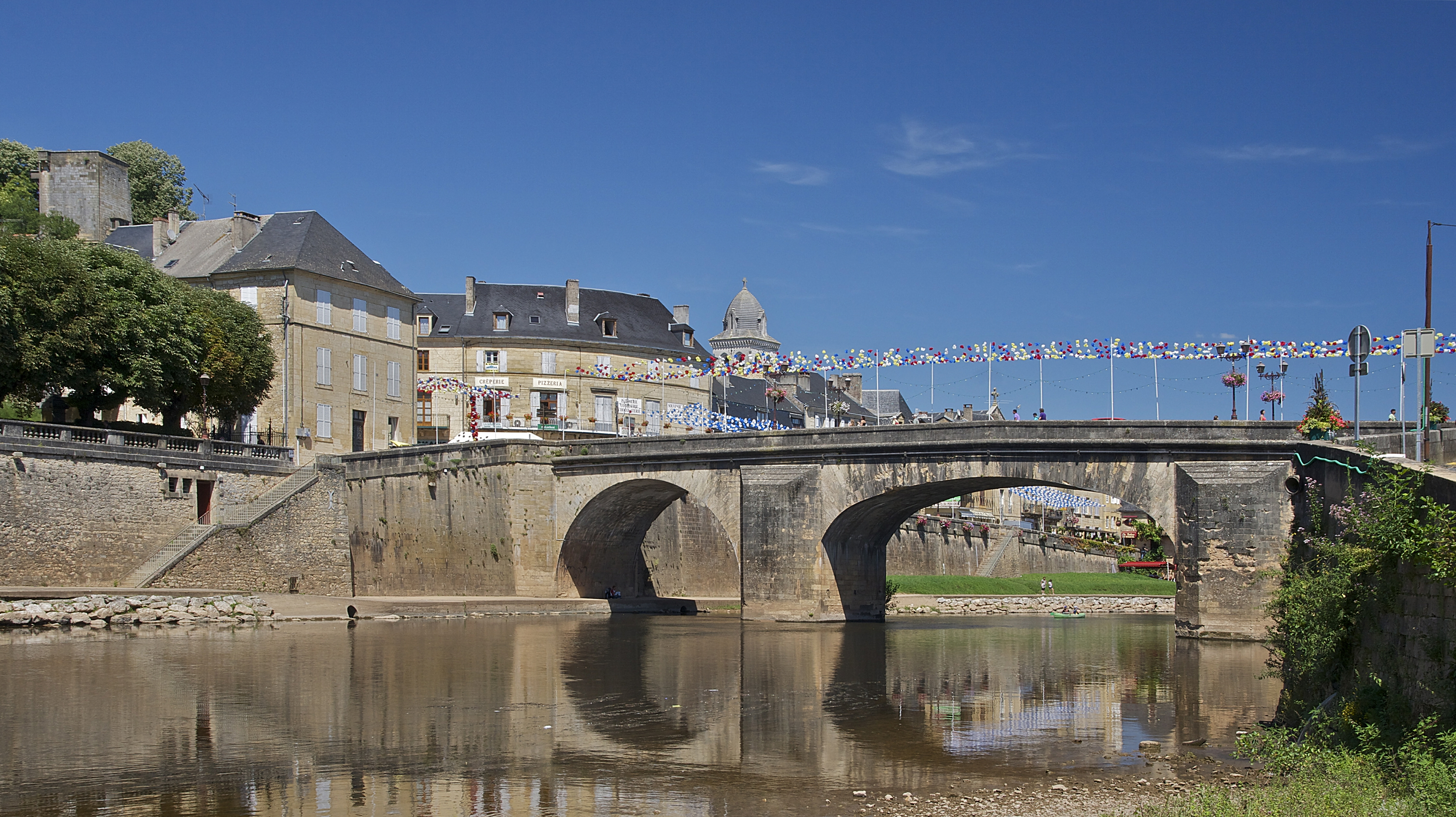 Bridge over the Vézère river in Montignac, Dordogne, France.